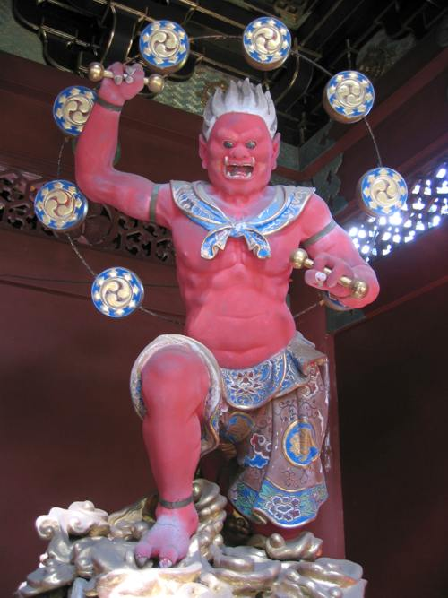 The god of thunder, Nitenmon Gate, Taiyuin-byo Shrine, Nikko, Japan.